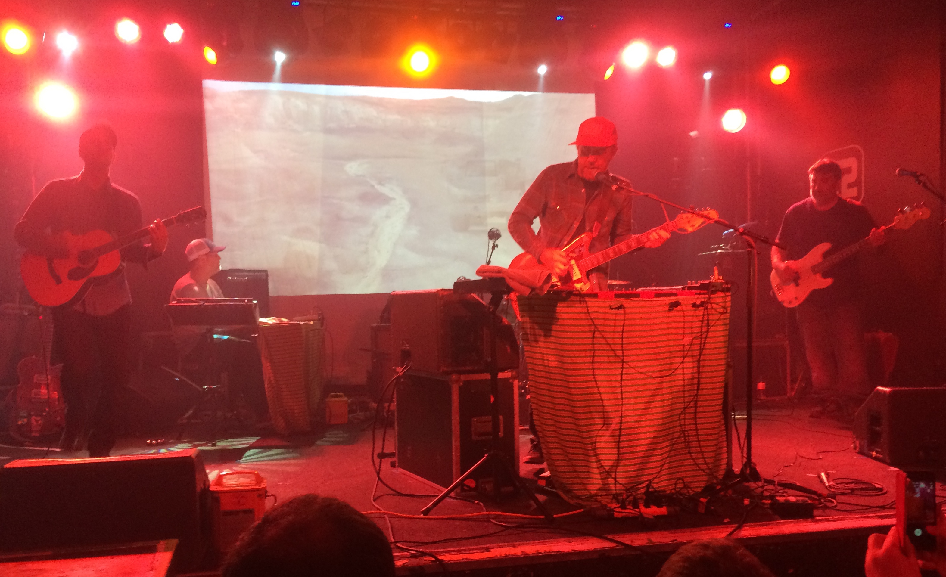 Grandaddy playing at the Concorde 2 venue in Brighton, UK, on 1 April 2017. Drummer Aaron Burtch is out of view behind frontman Jason Lytle. Guitarist Jim Fairchild was absent on this occasion, his replacement being the guitarist at left, whom Lytle introduced during the performance as "our friend Sean". Tim Dryden is on keyboards. The late band member and bassist Kevin Garcia, who also provided backing vocals, is at right.